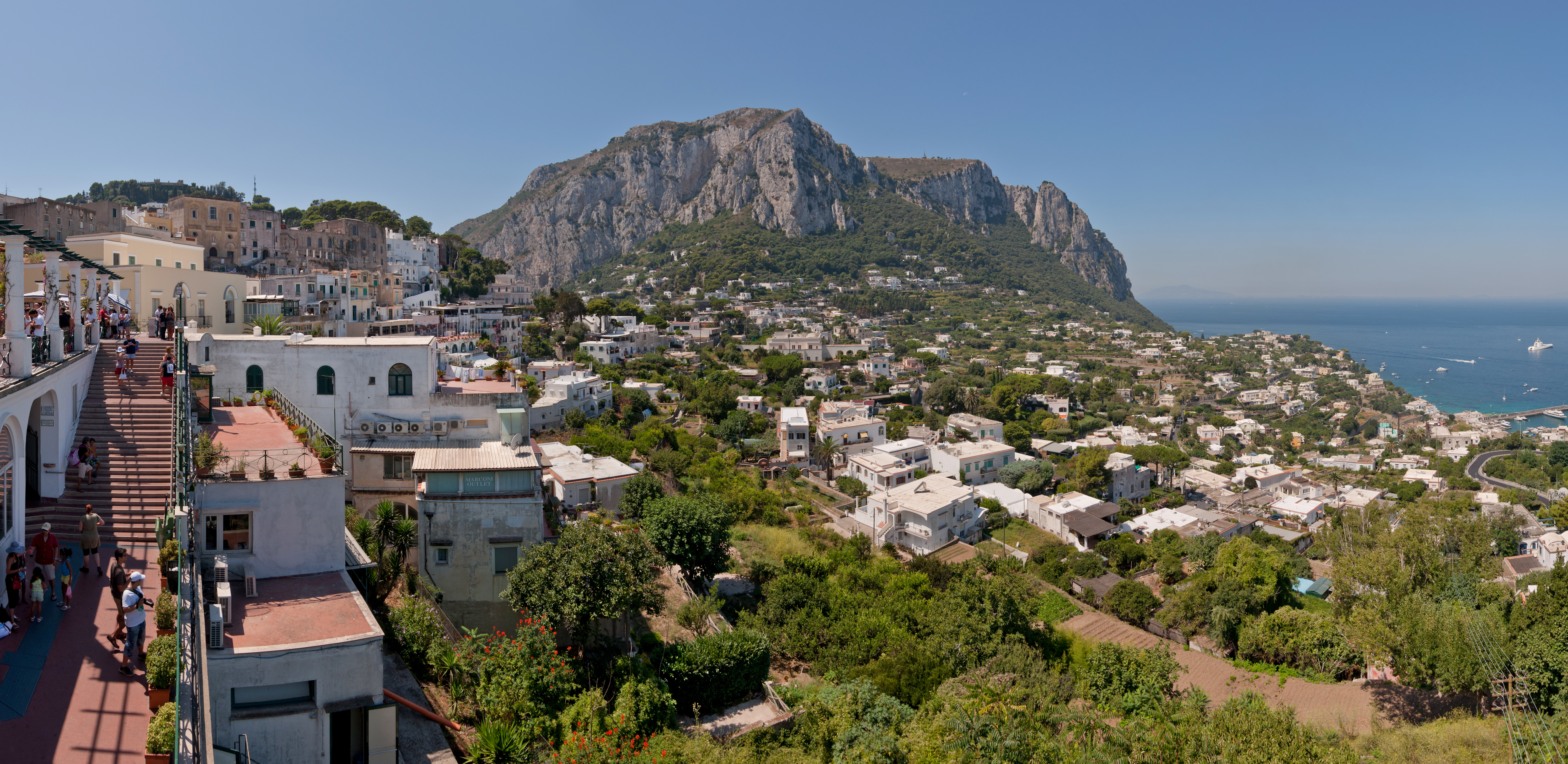 Panoramic view from Capri Centre Belvedere, on Capri Island, Italy.